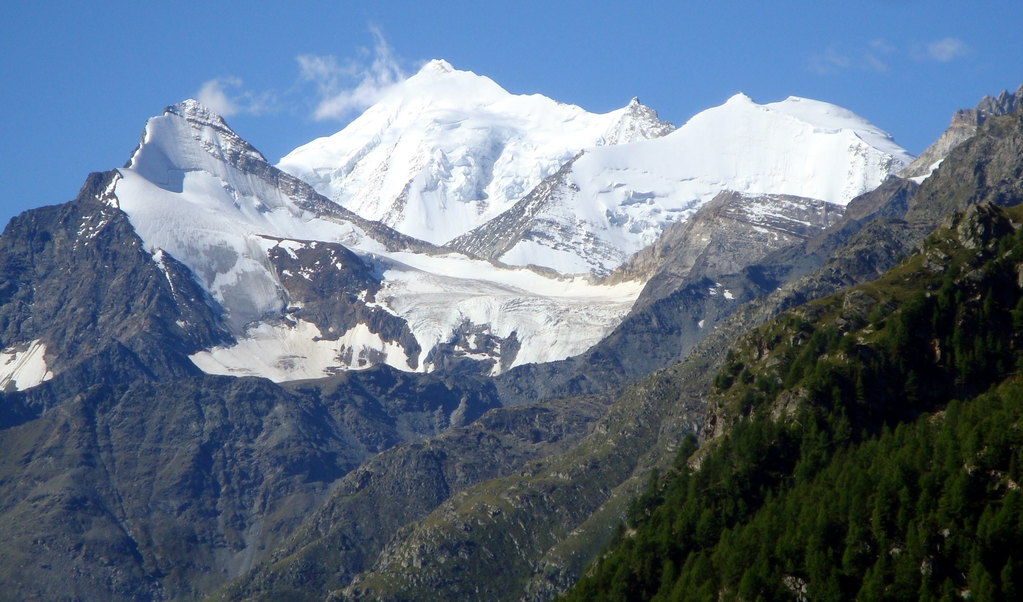 Brunegghorn and Weisshorn